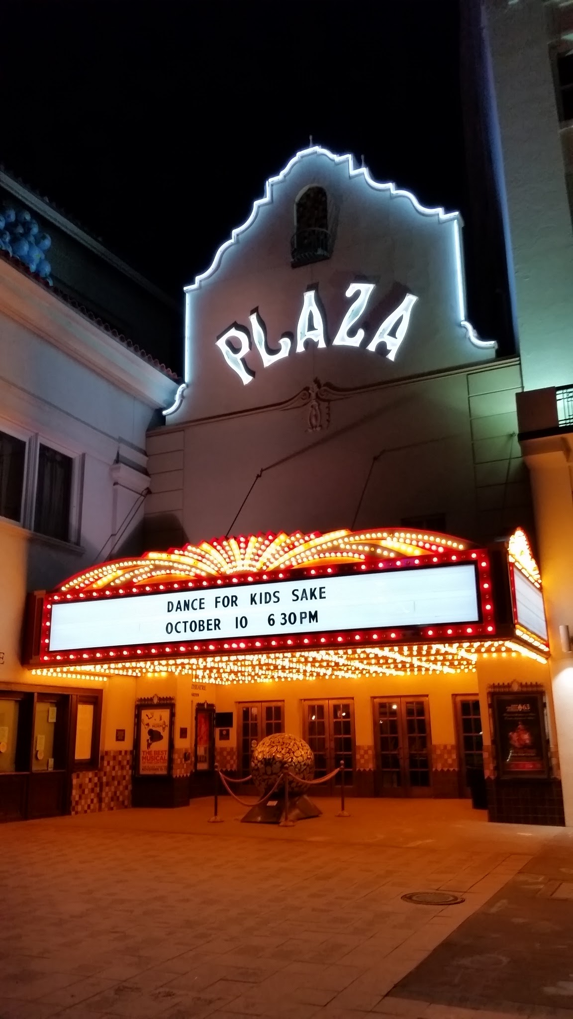 The Plaza Theater in El Paso, Texas at night.